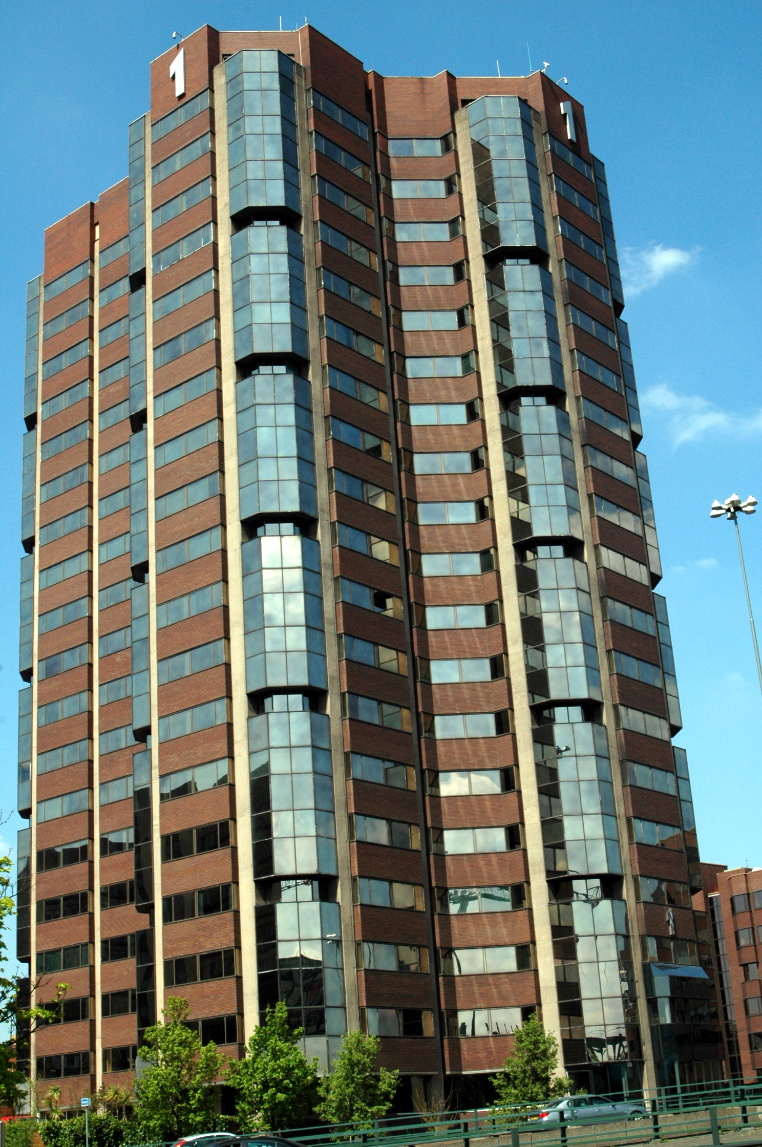 1 Hagley Road, also known as Metropolitan House, is a 1970s office block designed by John Madin.